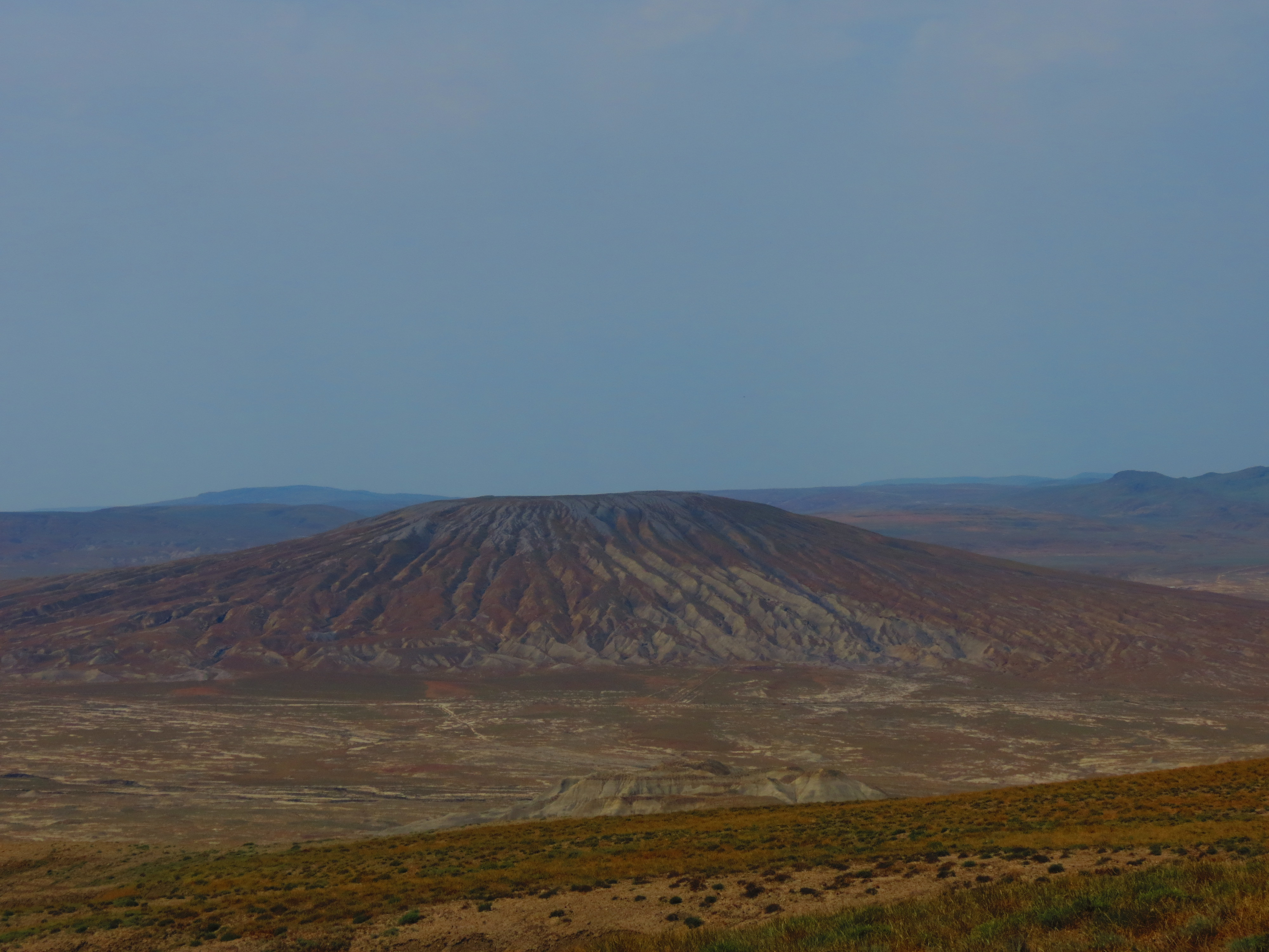 Toragay Mud Volcano. The highest Azerbaijani and world stand alone mud volcano. Photo by Uzeyir Mikayilov 10